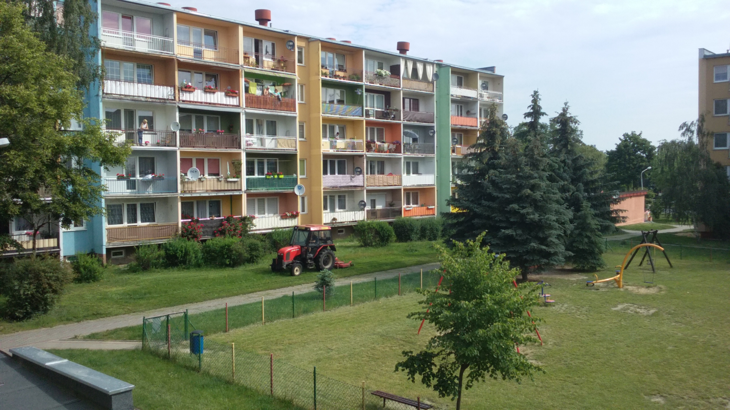 Tractor cutting grass in Hubala I residential area in Tomaszów Mazowiecki